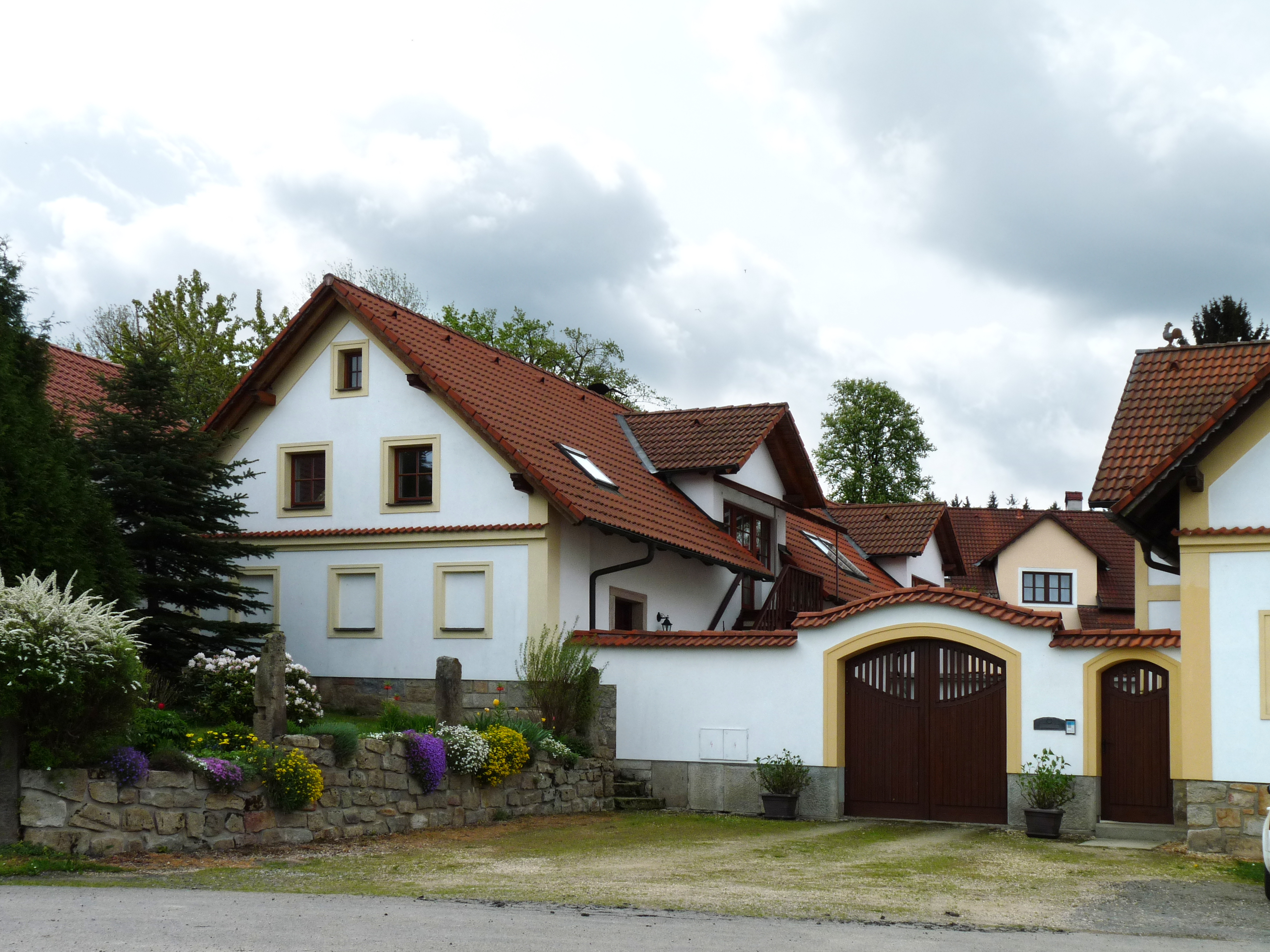 House No 26 in the village of Leština, Strmilov, Jindřichův Hradec District, South Bohemian Region, Czech Republic.